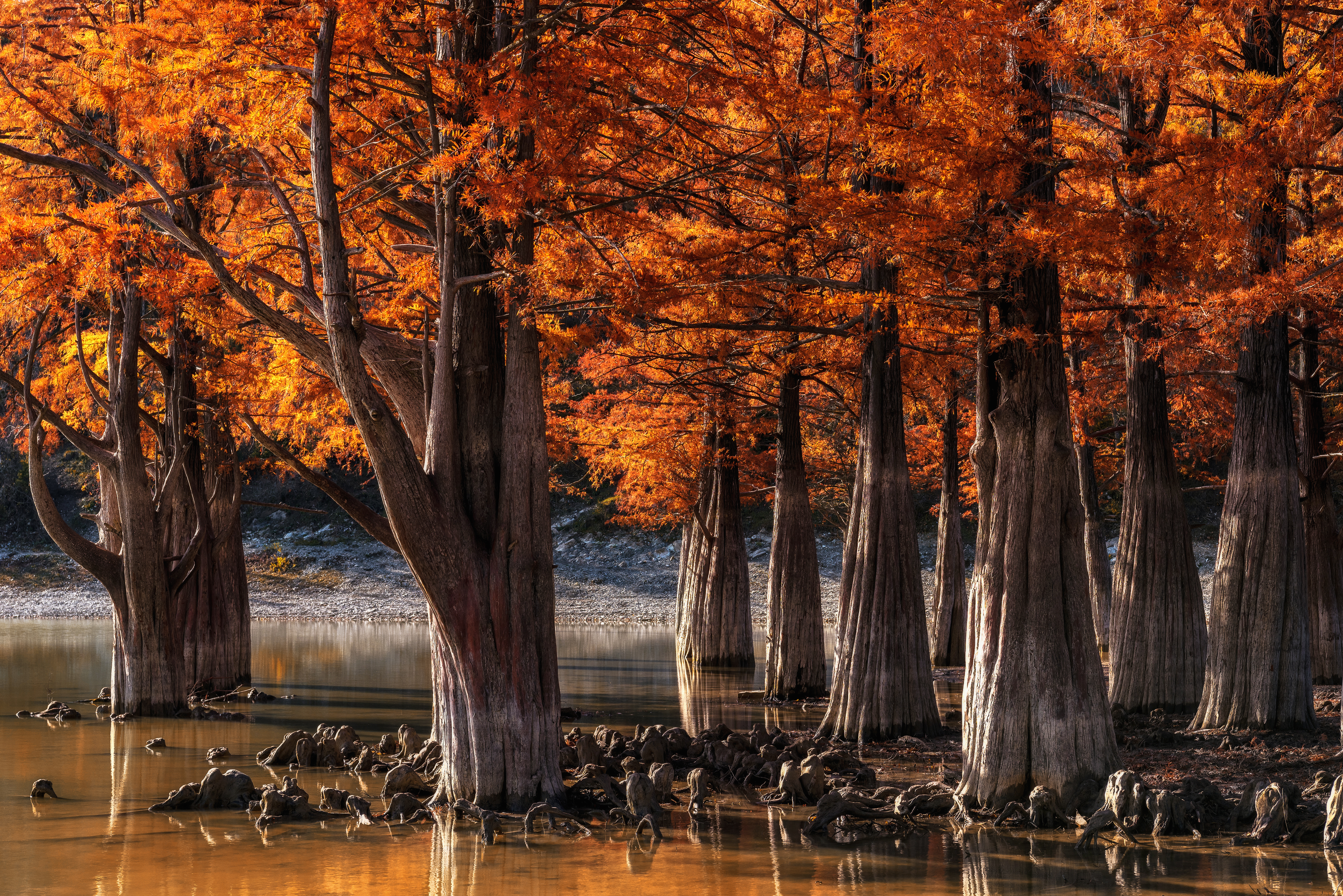 Swamp cypress (Taxodium distichum) near Sukko, Krasnodar Krai, Russia